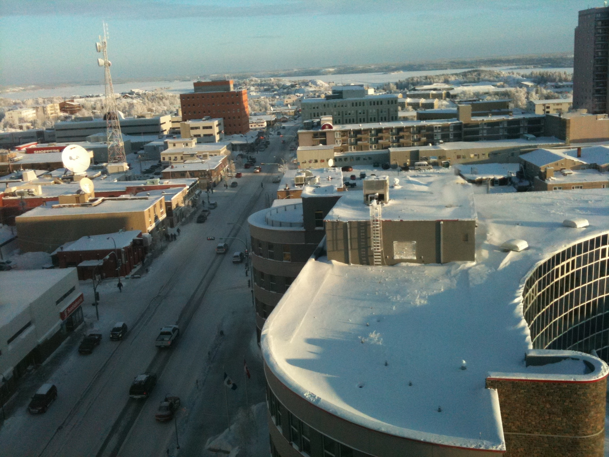 Downtown Yellowknife, Northwest Territories. Taken from Northwest Tower